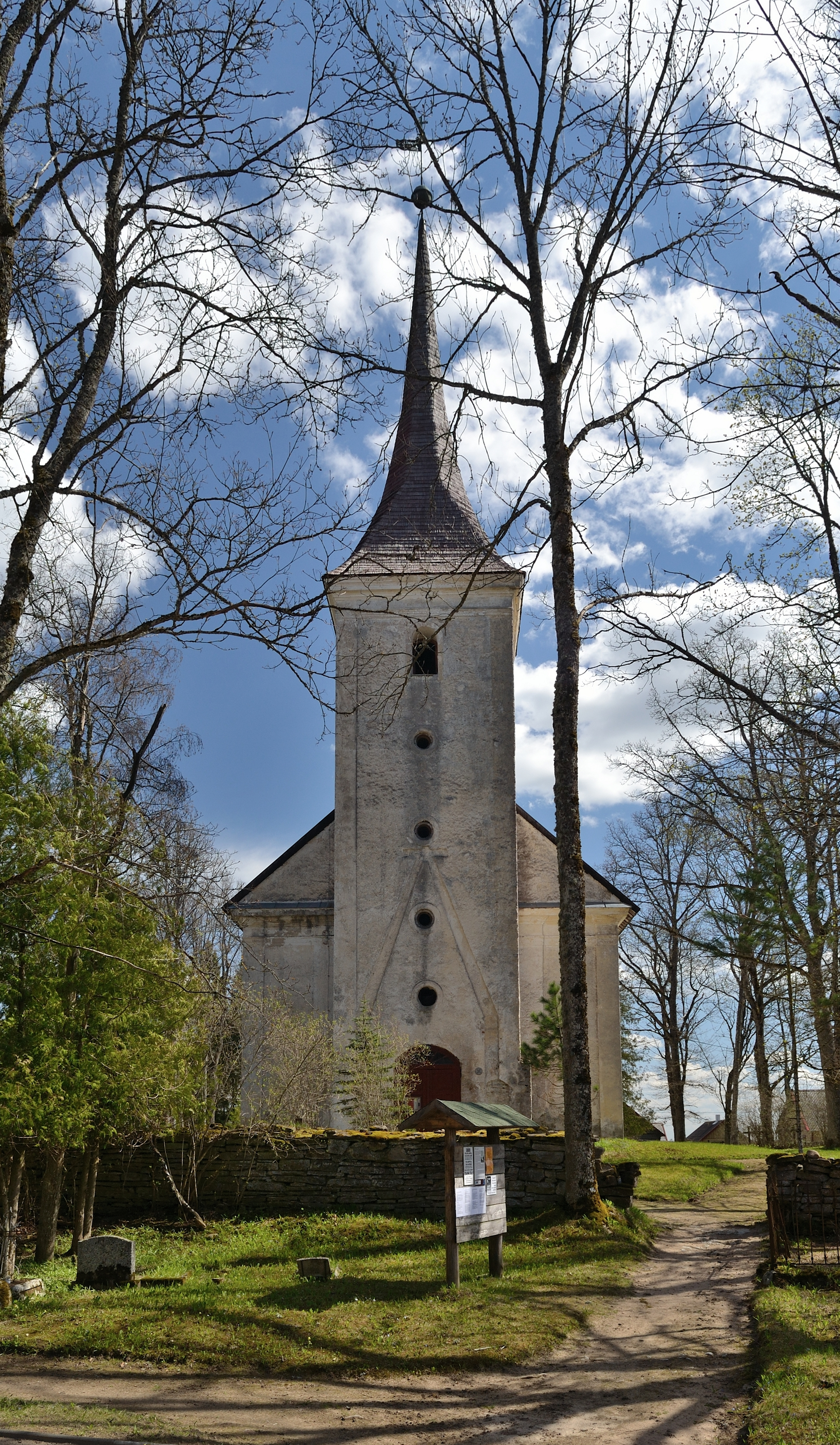 Anna church